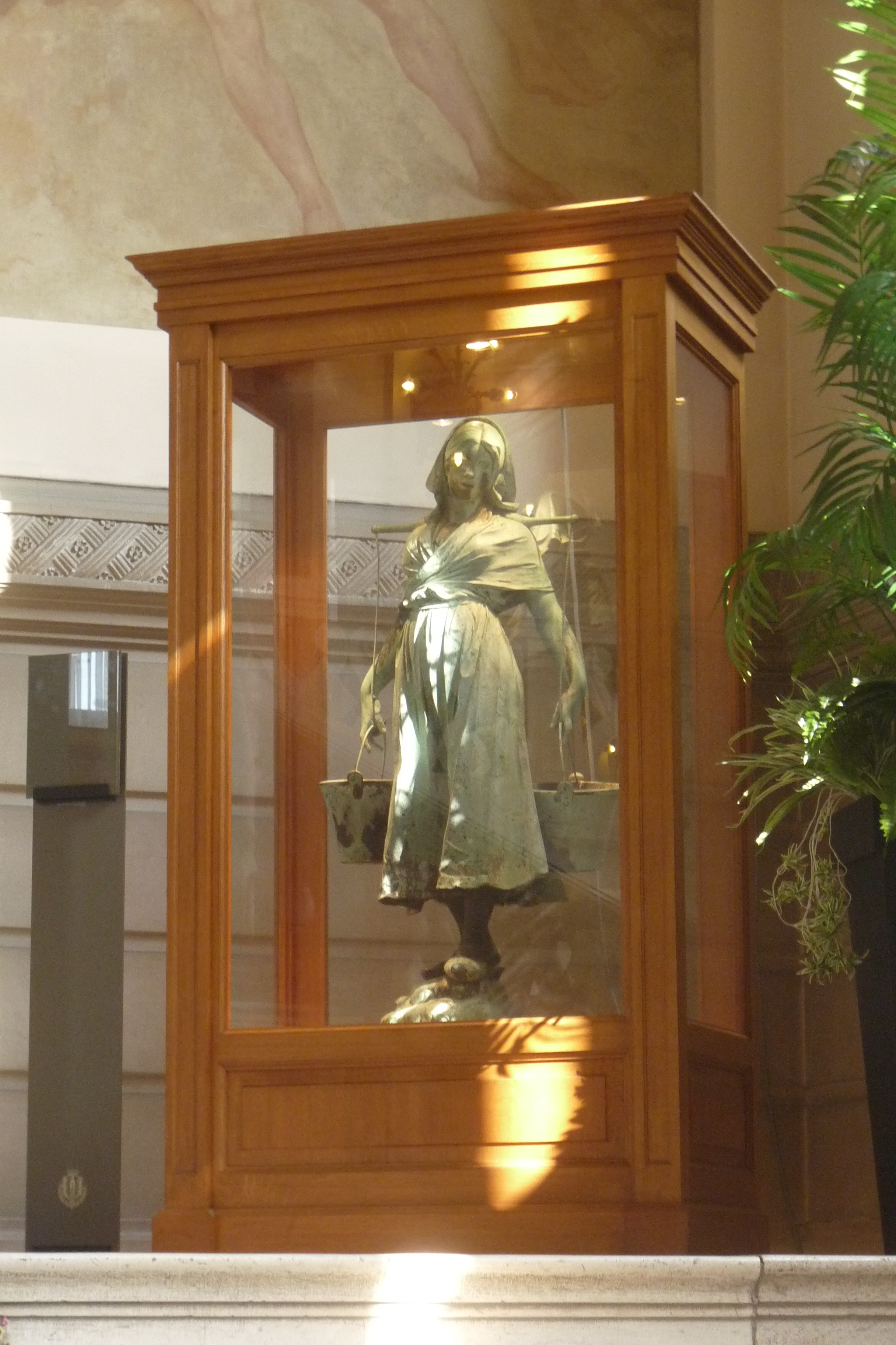 Water Carrier by Julien Dillens (original)